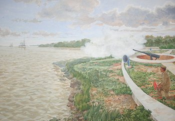 Siamese guns from Chulachomklao Fort firing on French ships during the Battle of Paknam, 1893.